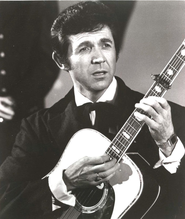 Photo of country musician and singer Sonny James.